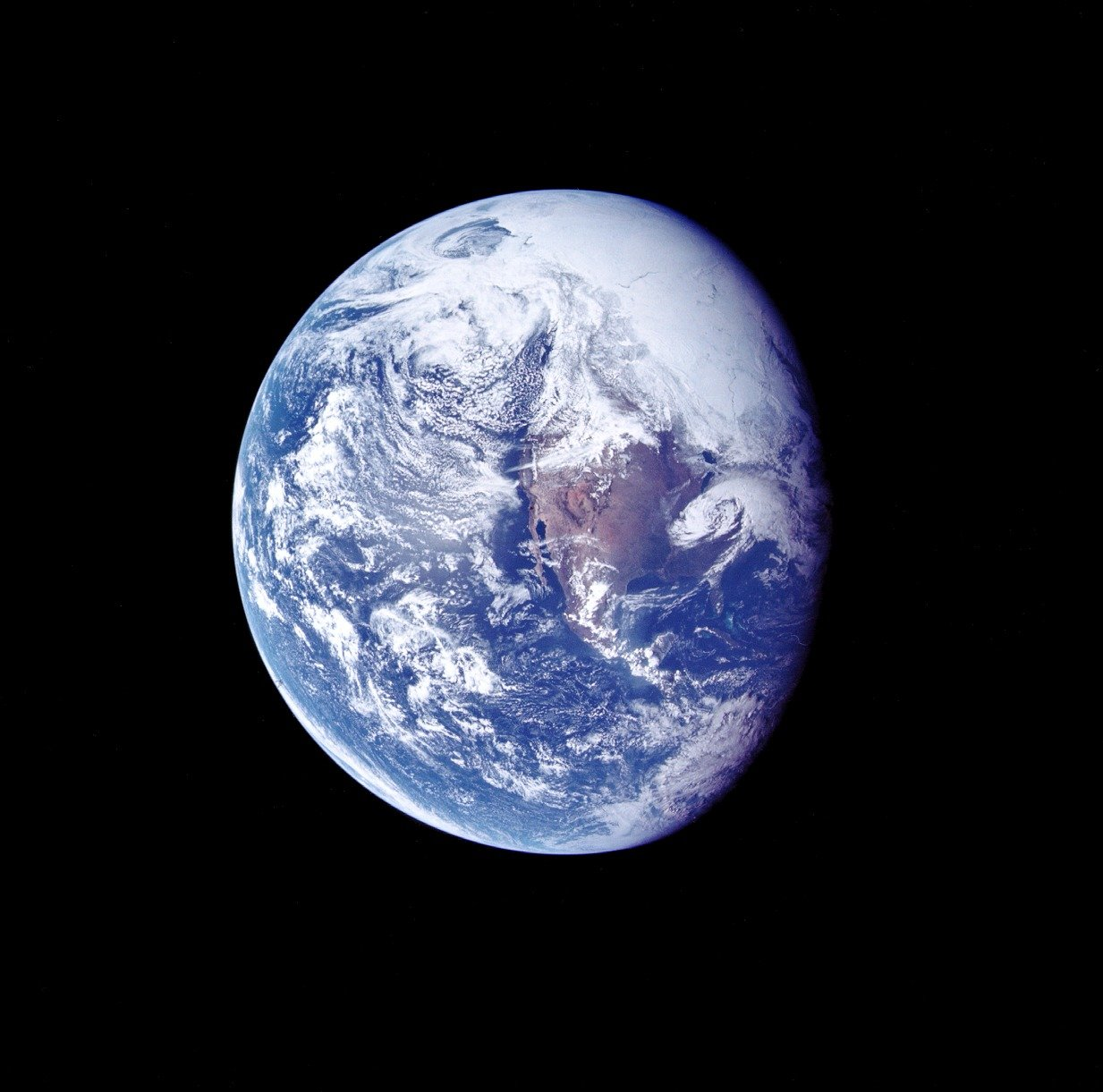 A view of Earth during translunar coast